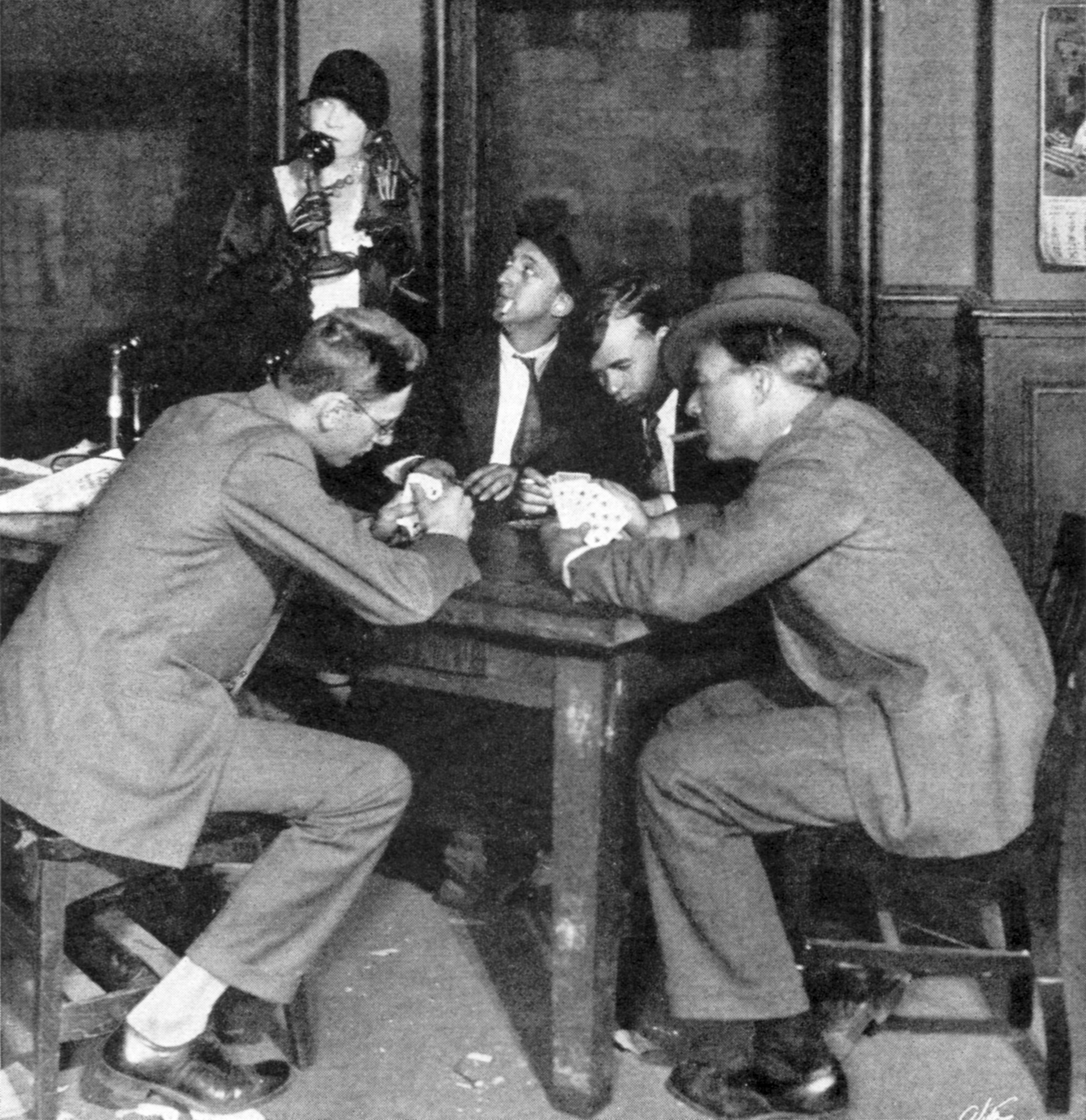 Promotional photograph for the 1928 Broadway production of The Front Page. Caption reads as follows:The reporters gathered around a table in the press room of the Chicago Criminal Courts Building are one of the vivid features of the "realism plus" in Jed Harris' production of The Front Page, newspaper and crime melodrama by Ben Hecht and Charles MacArthur, which has brought the Broadway season quickly to life. Shown in this scene from Act I are Violet Barney, Vincent York, Allen Jenkins, Tammany Young and Willard Robertson.